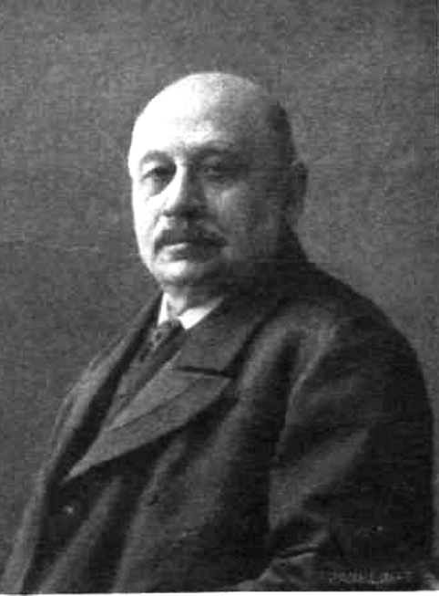 Portrait of Gyula Bőke